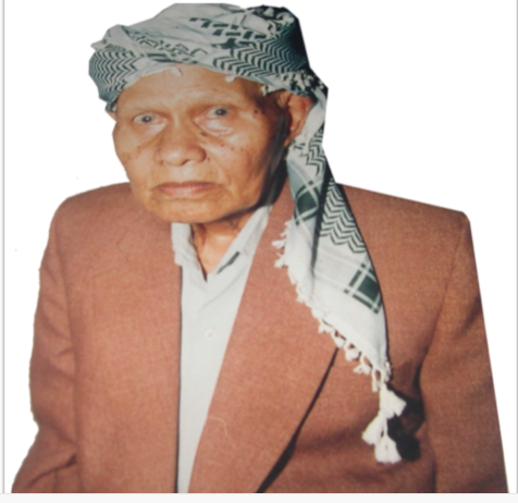 Imam Maulana Abdul Manaf Amin Al-Khatib pada saat usianya 80 tahun.